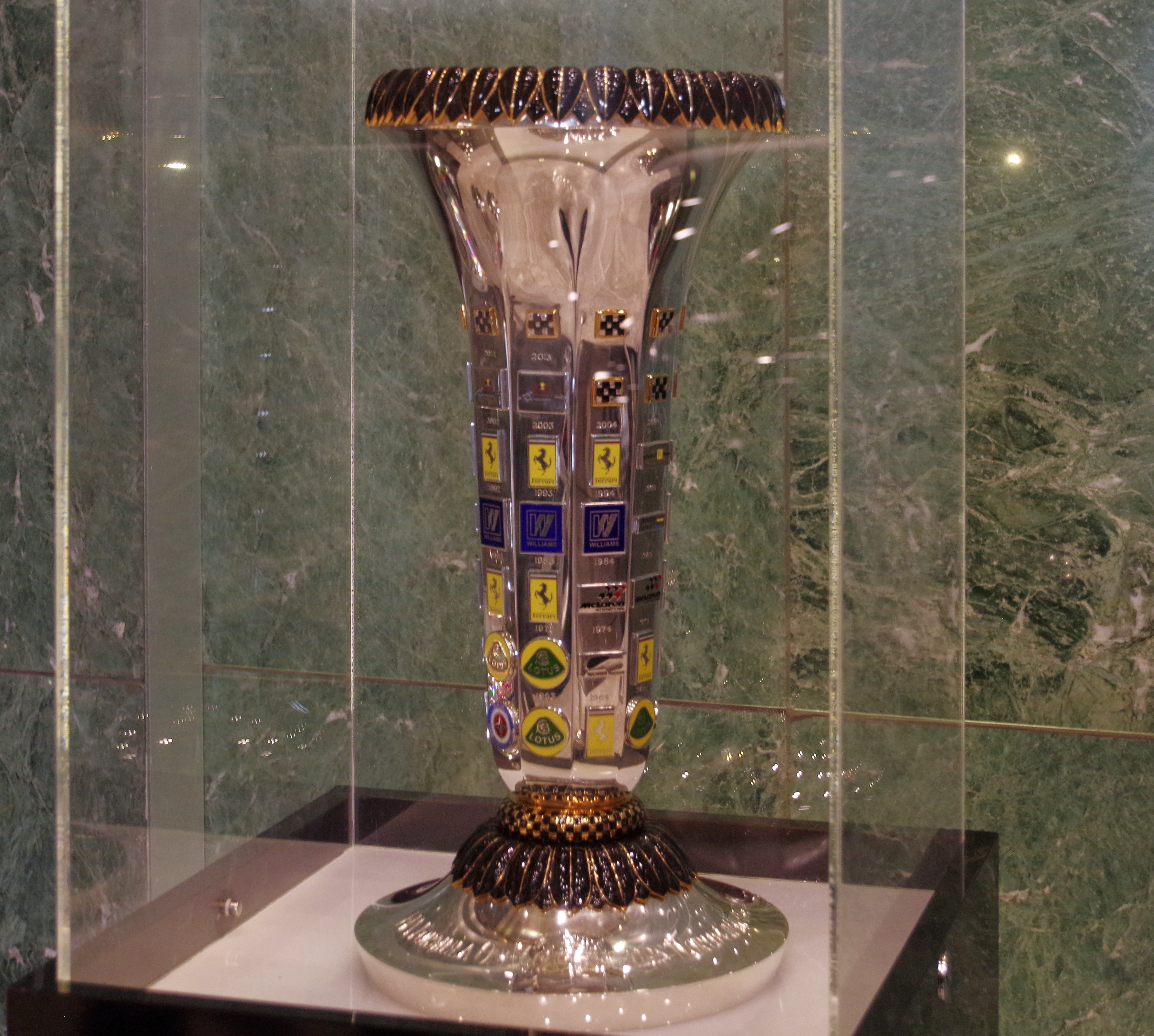 The Formula One World Championship Constructors' Trophy at the 2014 London Motor Expo at Canary Wharf.